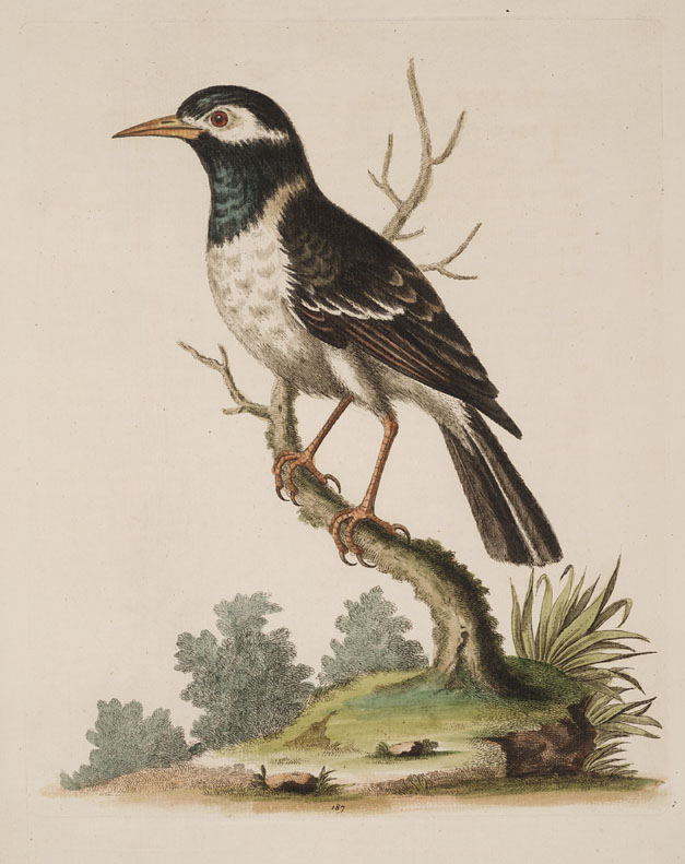 "The black and white Indian starling" etching by George Edwards. Probably Gracupica contra.